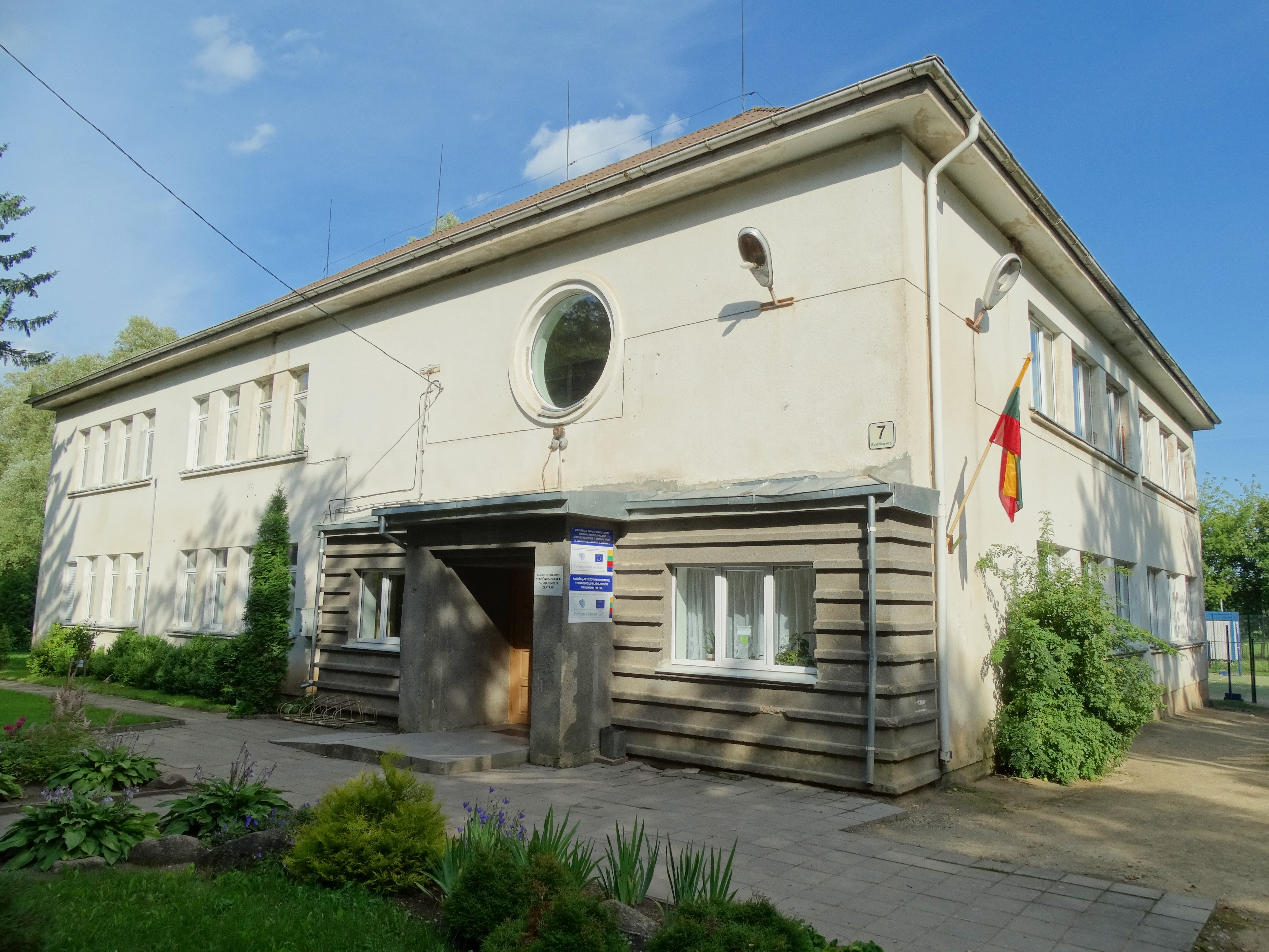 Basic school (former), Stačiūnai, Pakruojis District, Lithuania